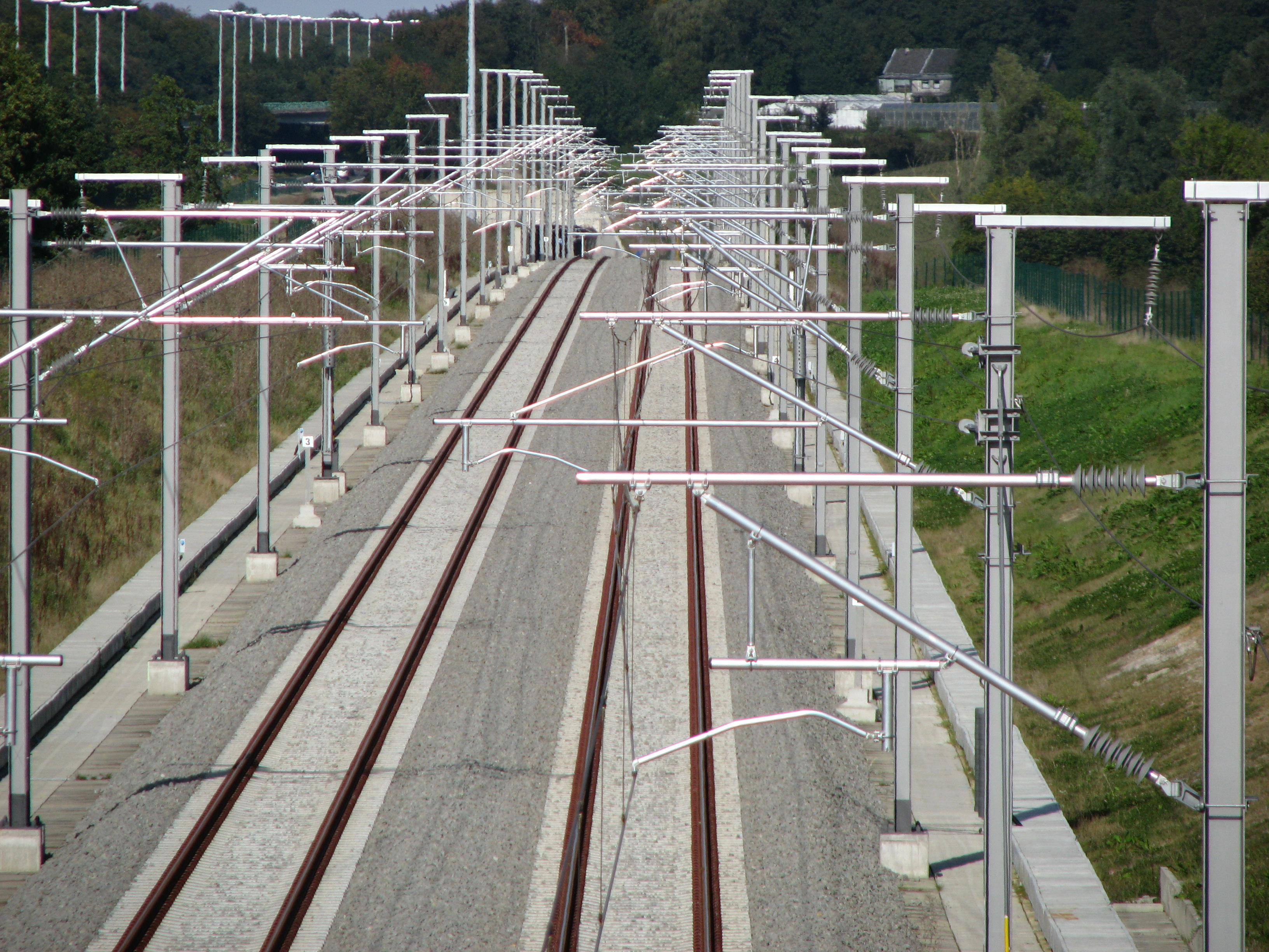 Railroad near Walhorn, Belgium, Highspeedline (HSL) 3 between Aachen and Liège.